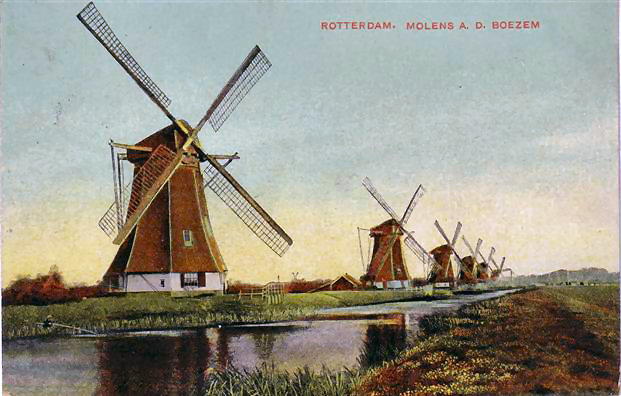 Mills at the Boezem in Rotterdam.